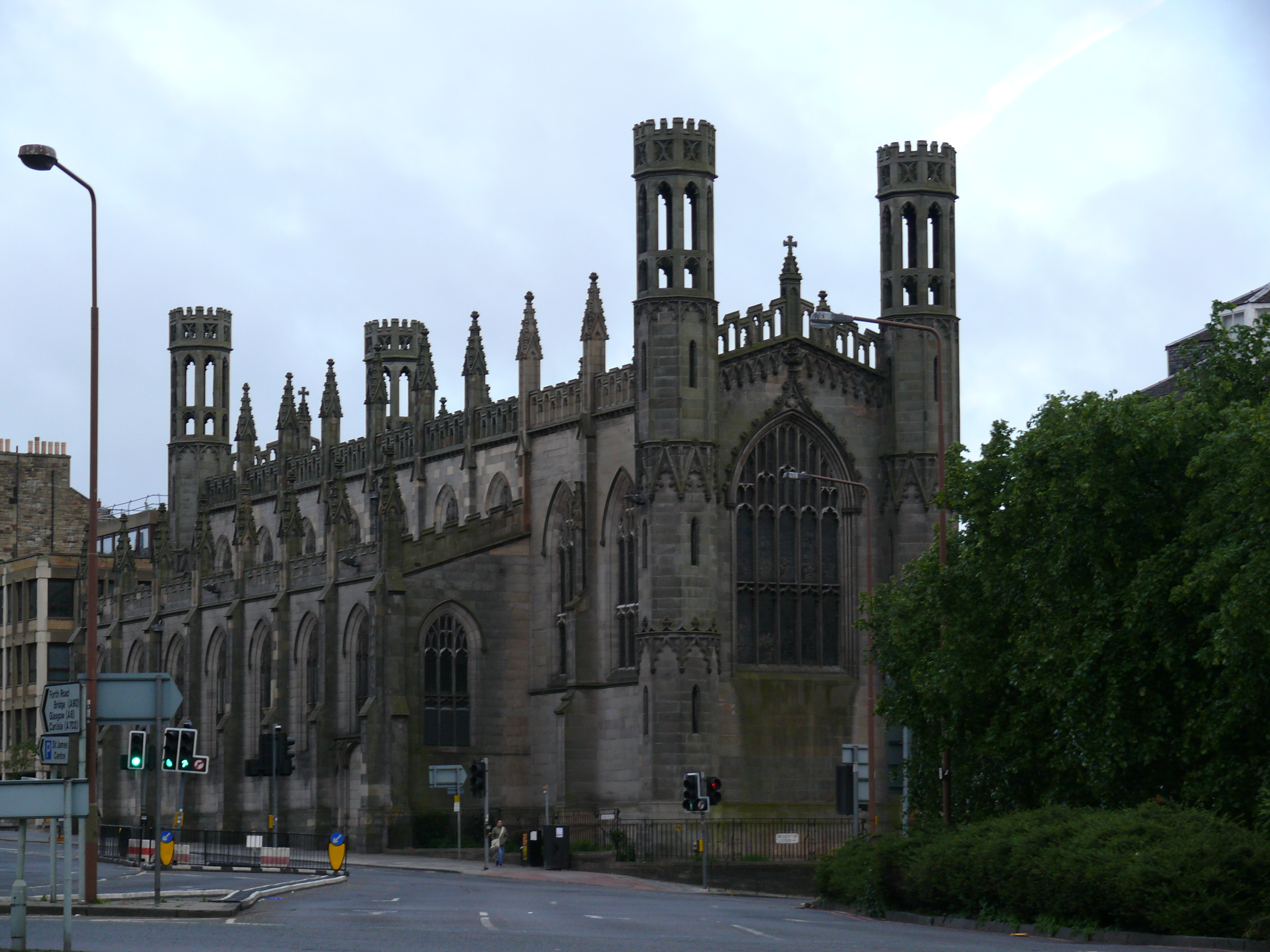 St Paul's and St George's Church is a church of the Scottish Episcopal Church on York Place in the east end of Edinburgh.